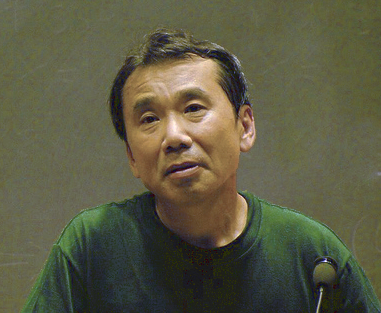 Japanese writer Haruki Murakami giving a lecture at Massachusetts Institute of Technology in 2005.